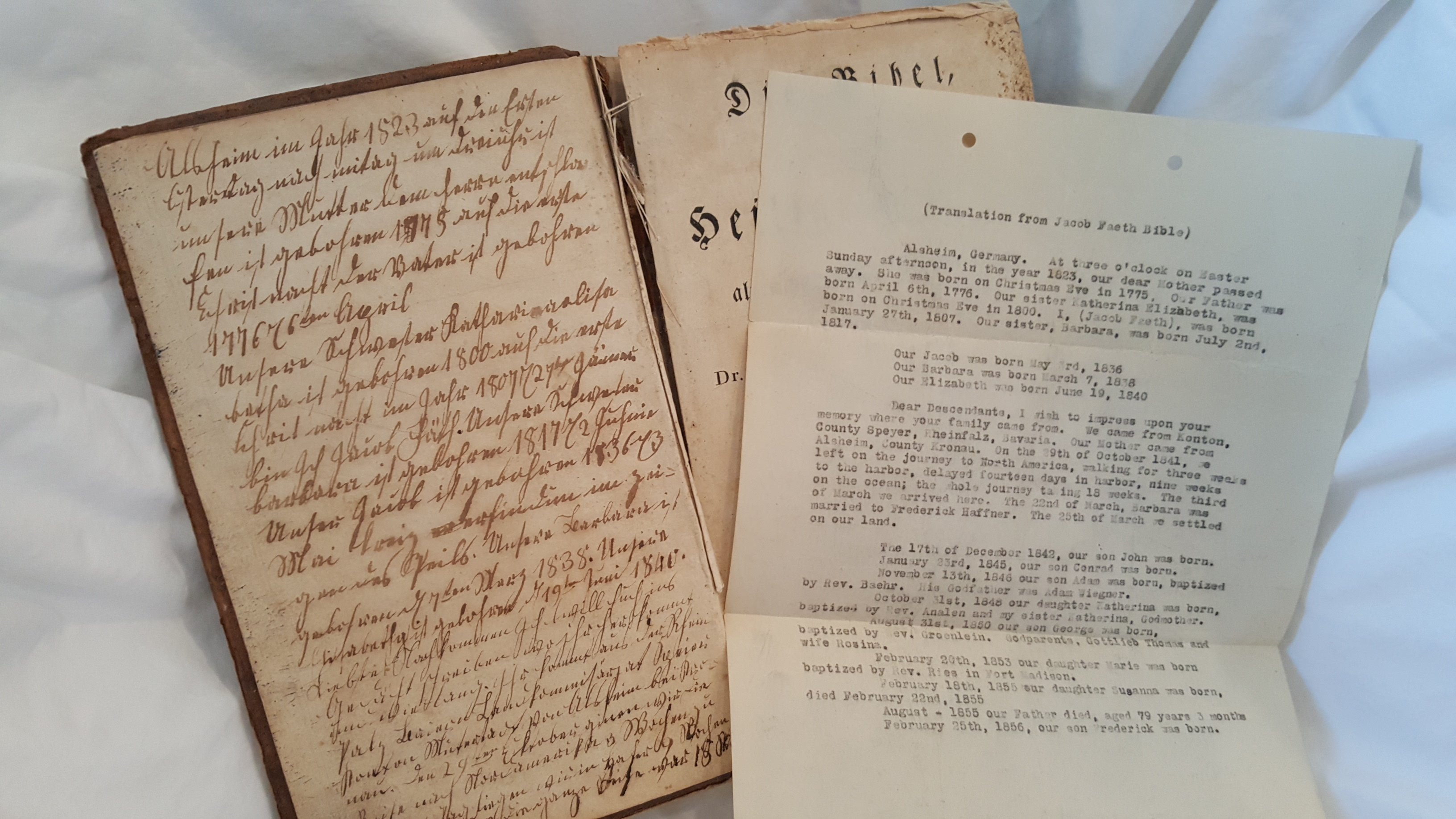 Jacob Faeth Family Bible with English translation, recounting trip of Faeth family from Bavaria to Iowa homestead over eighteen weeks in 1841-1842.